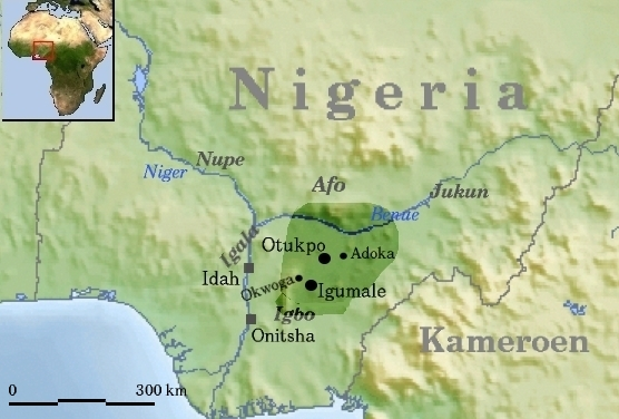 Approximate location Idoma land in Middle Ages